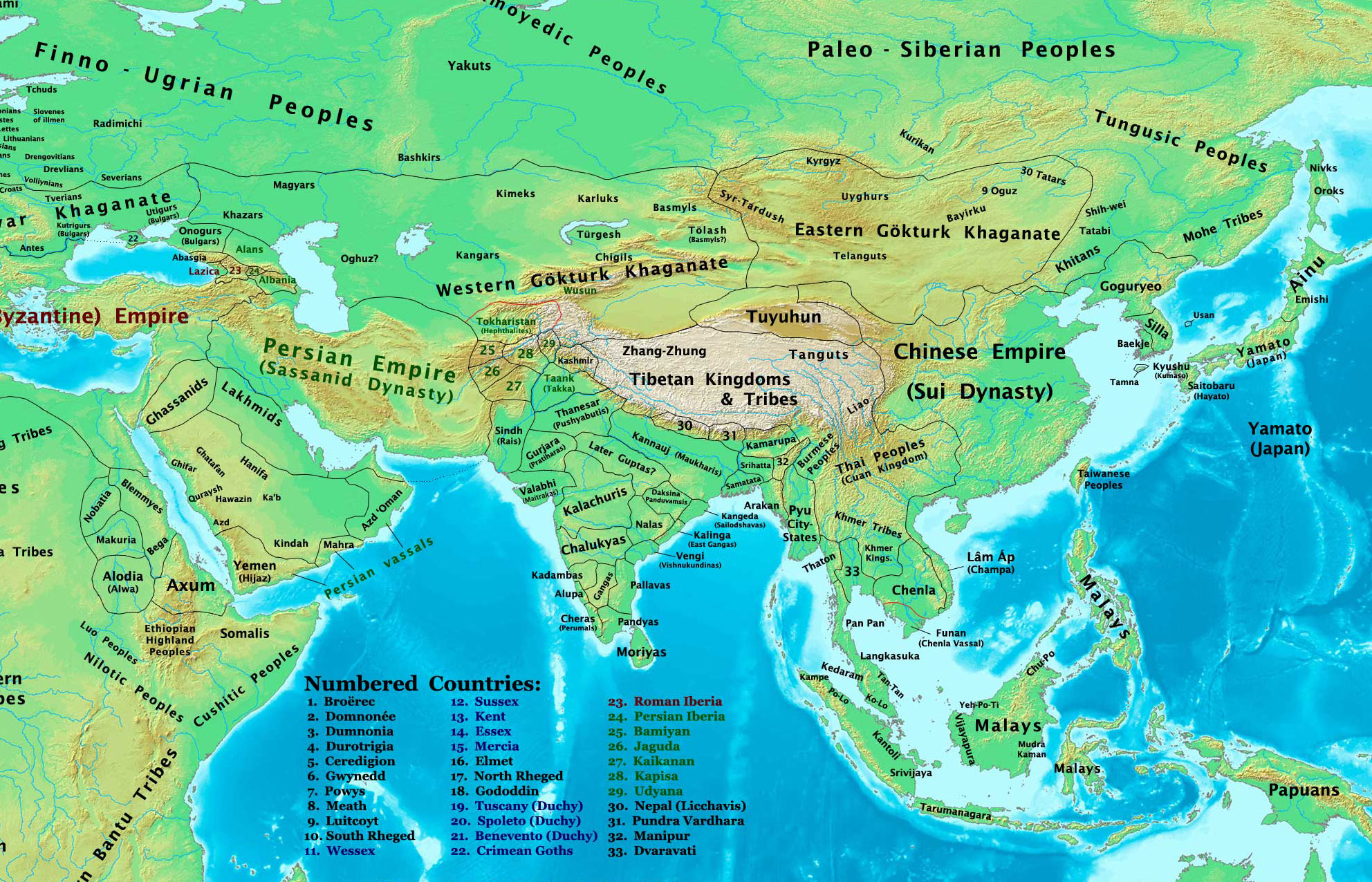 Map of Asia - 600 CE (AD). Image is based on map of Eastern Hemisphere in 600 AD.